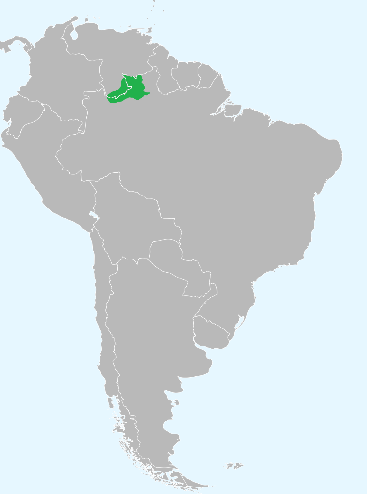 Map showing general territory occupied by the Yanomami peoples